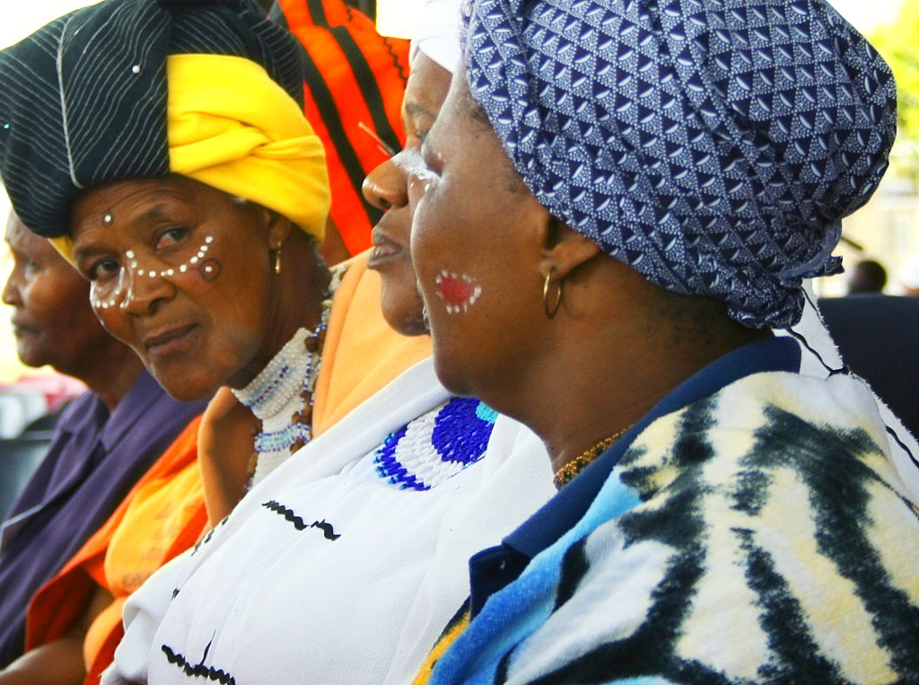 These traditionally dressed women are part of a group of Xhosa Tribal Leaders. The women on the right is wearing a head scarf made from indigo shweshwe fabric.